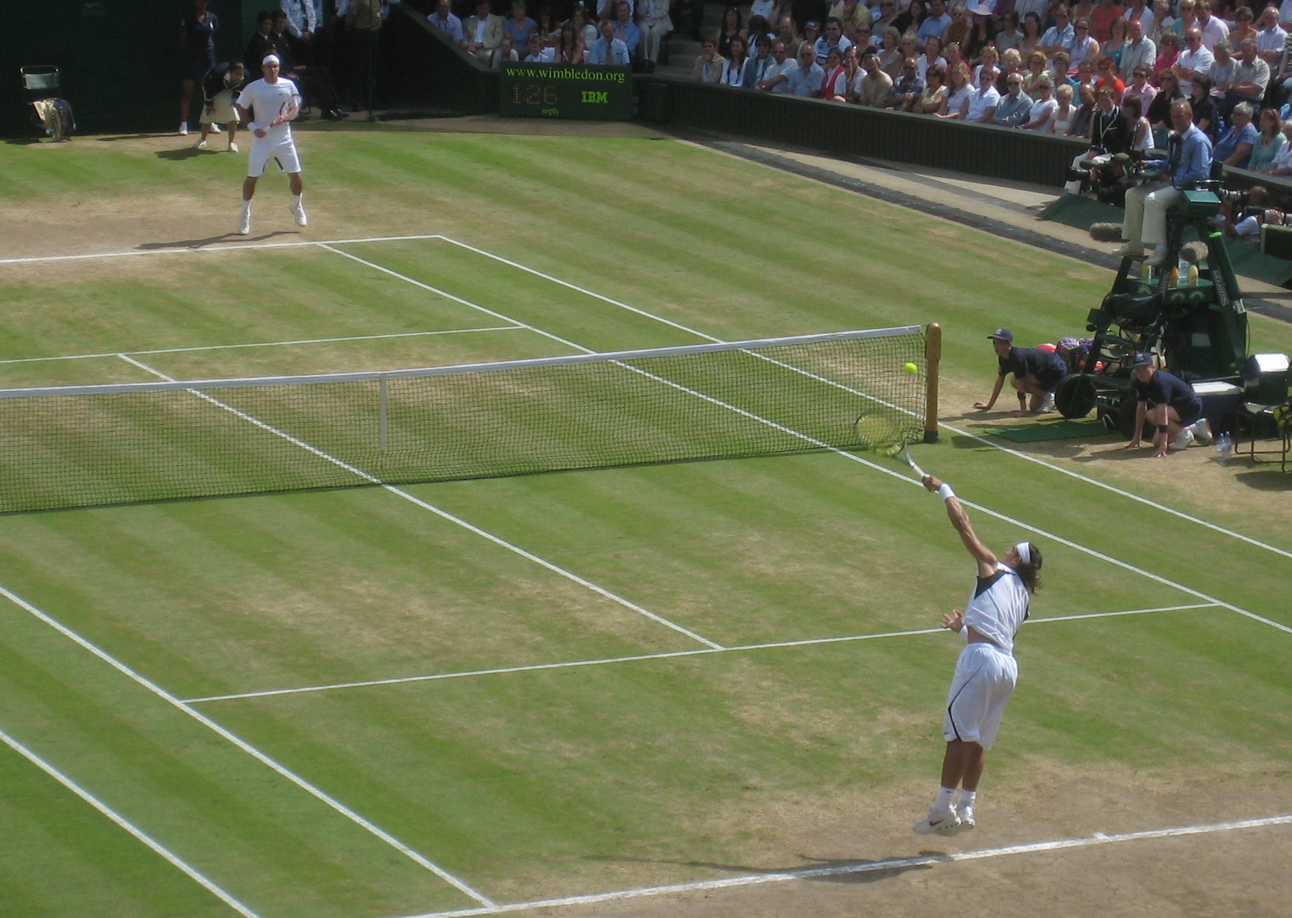 Roger Federer receives Rafael Nadal's serve during the final of the 2006 Wimbledon Championships